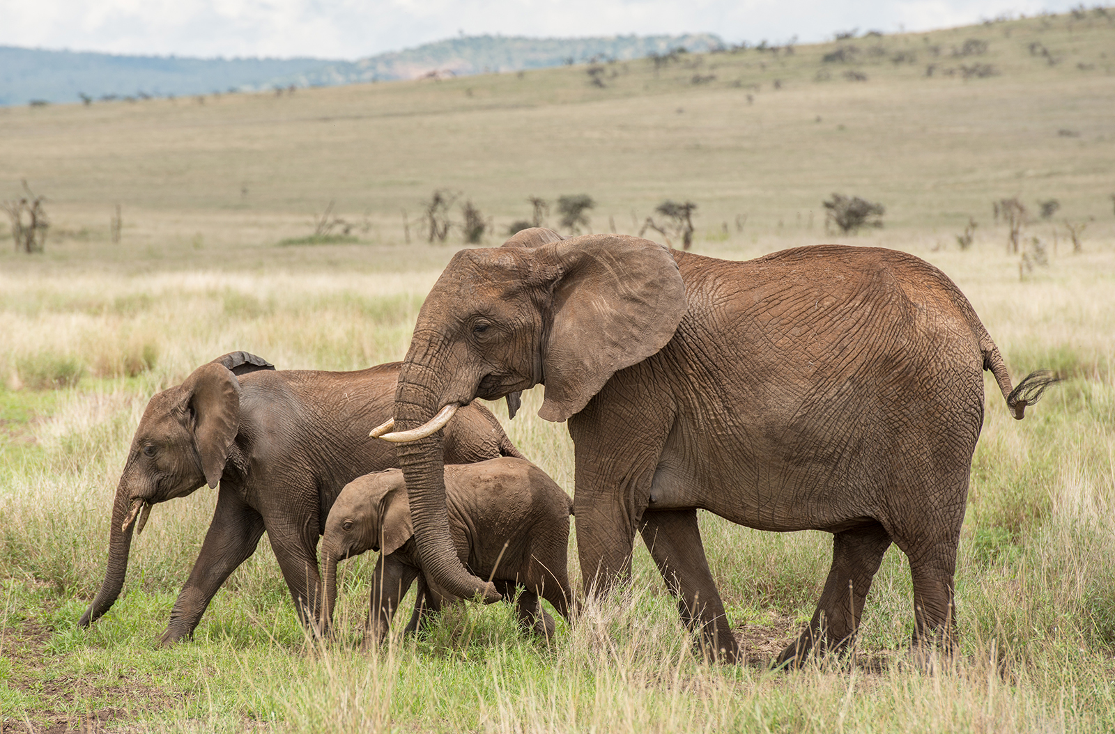 elephants roaming across Amboseli National Park in Kenya